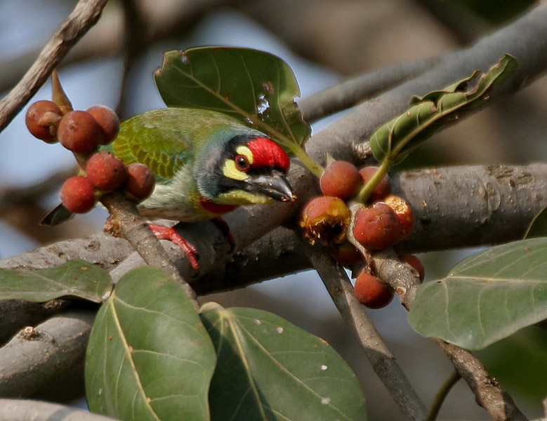 Coppersmith Barbet or Crimson-breasted Barbet Megalaima haemacephala feeding on Ficus benghalensis in Hyderabad, India.